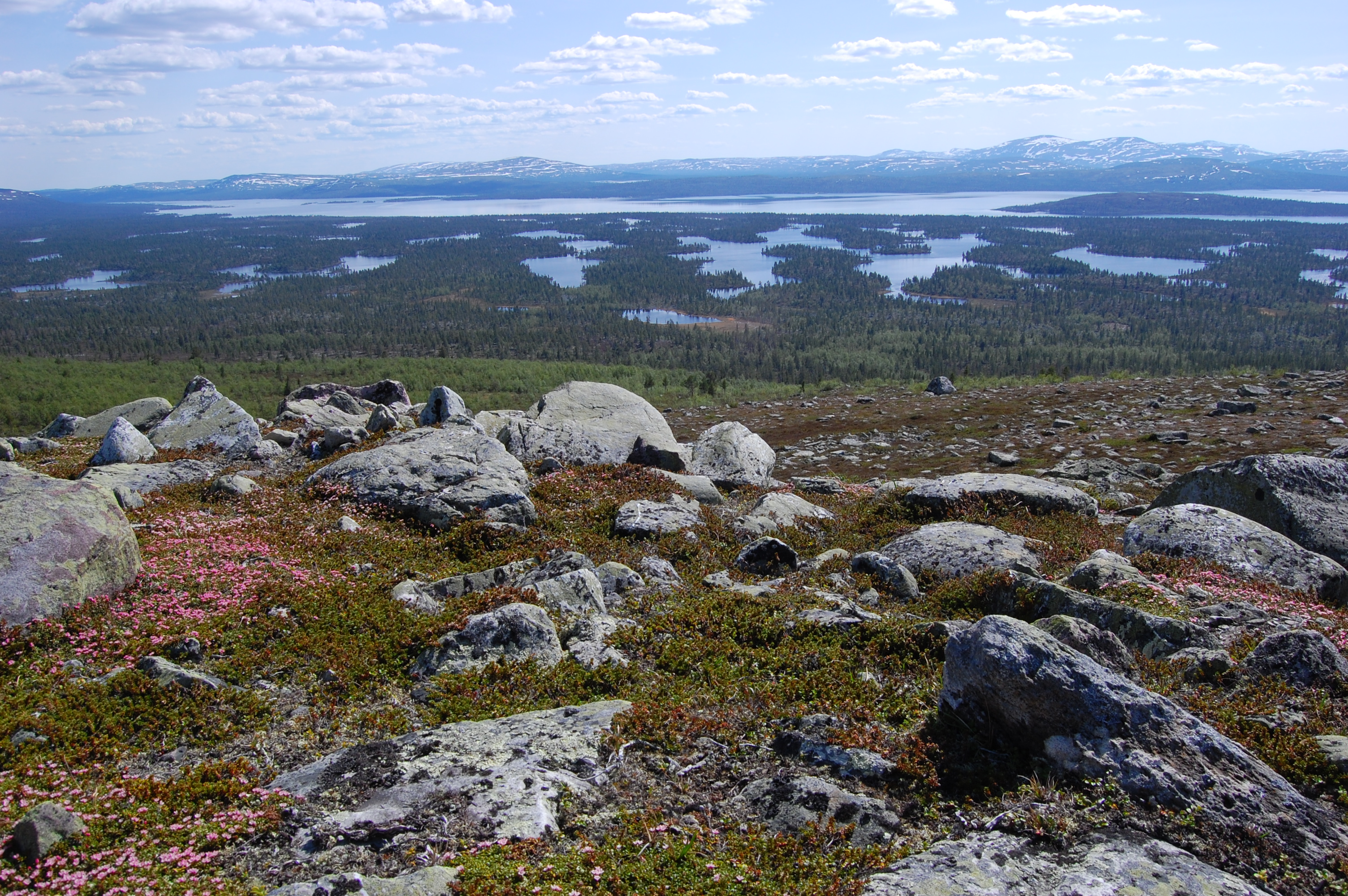 Lake Rogen, Sweden as seen from the north. Note the forested ridges in the lake, these are glacial landforms, the so-called 'Rogen moraines' of which this is the type location.